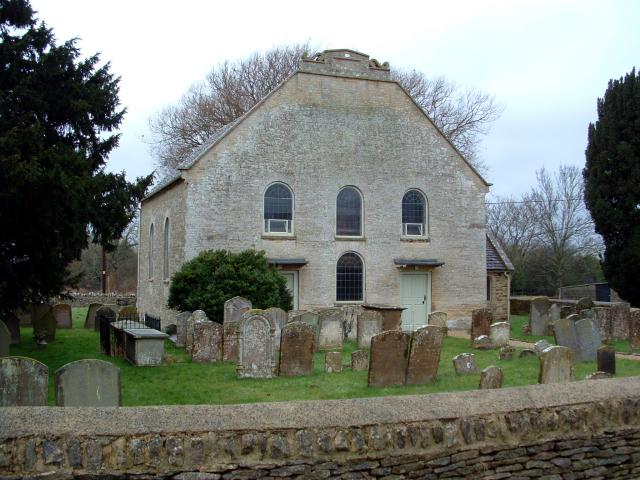 Cote Baptist Chapel in December 2005. The chapel is just south of Cote crossroads on the B4449 road.